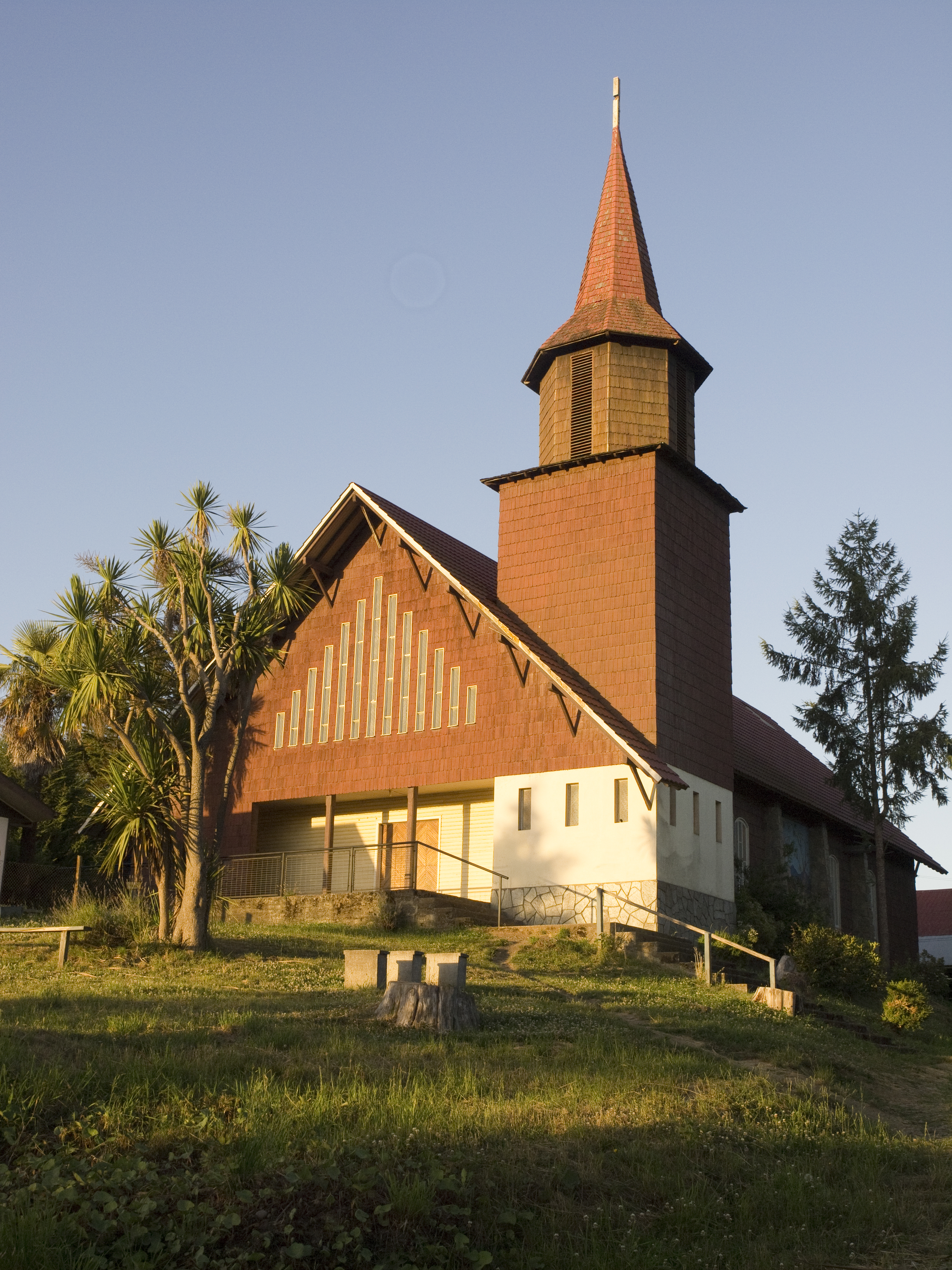 Image of the Mission in Quilacahuín, Parish of San Bernardino, Diocese of Osorno.